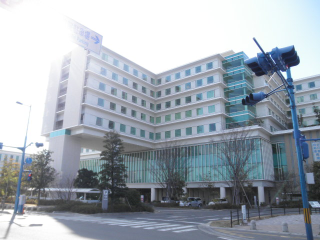 The Tokushima Red Cross hospital